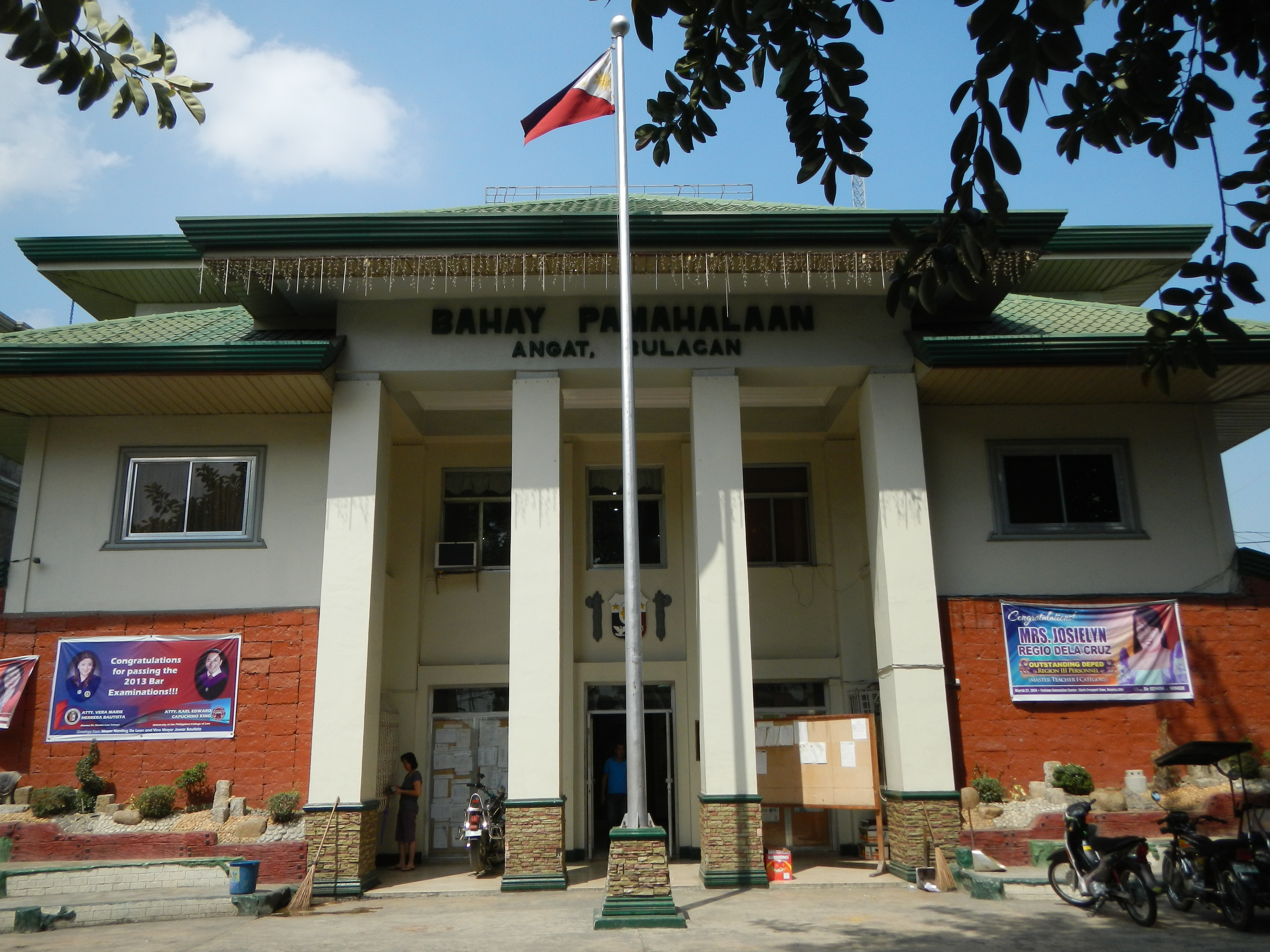 Angat, Bulacan Town Proper: Veterans Federation of the Philippines Monument, Memorial of Angat Heroes, Martyrs inside the Angat Municipal Hall Complex Compound beside the Angat PPCRV, Parish Rectory, and Church.